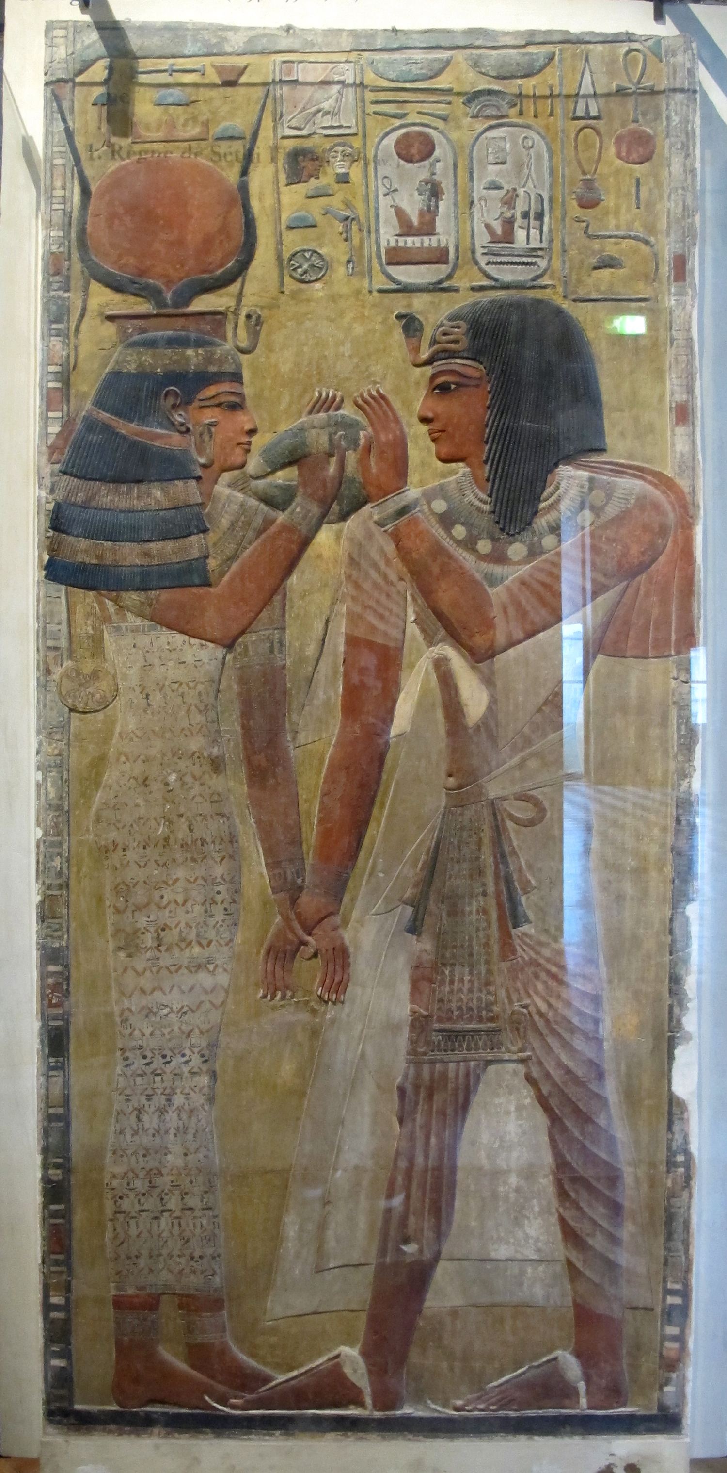 Egyptian antiquities in the Louvre